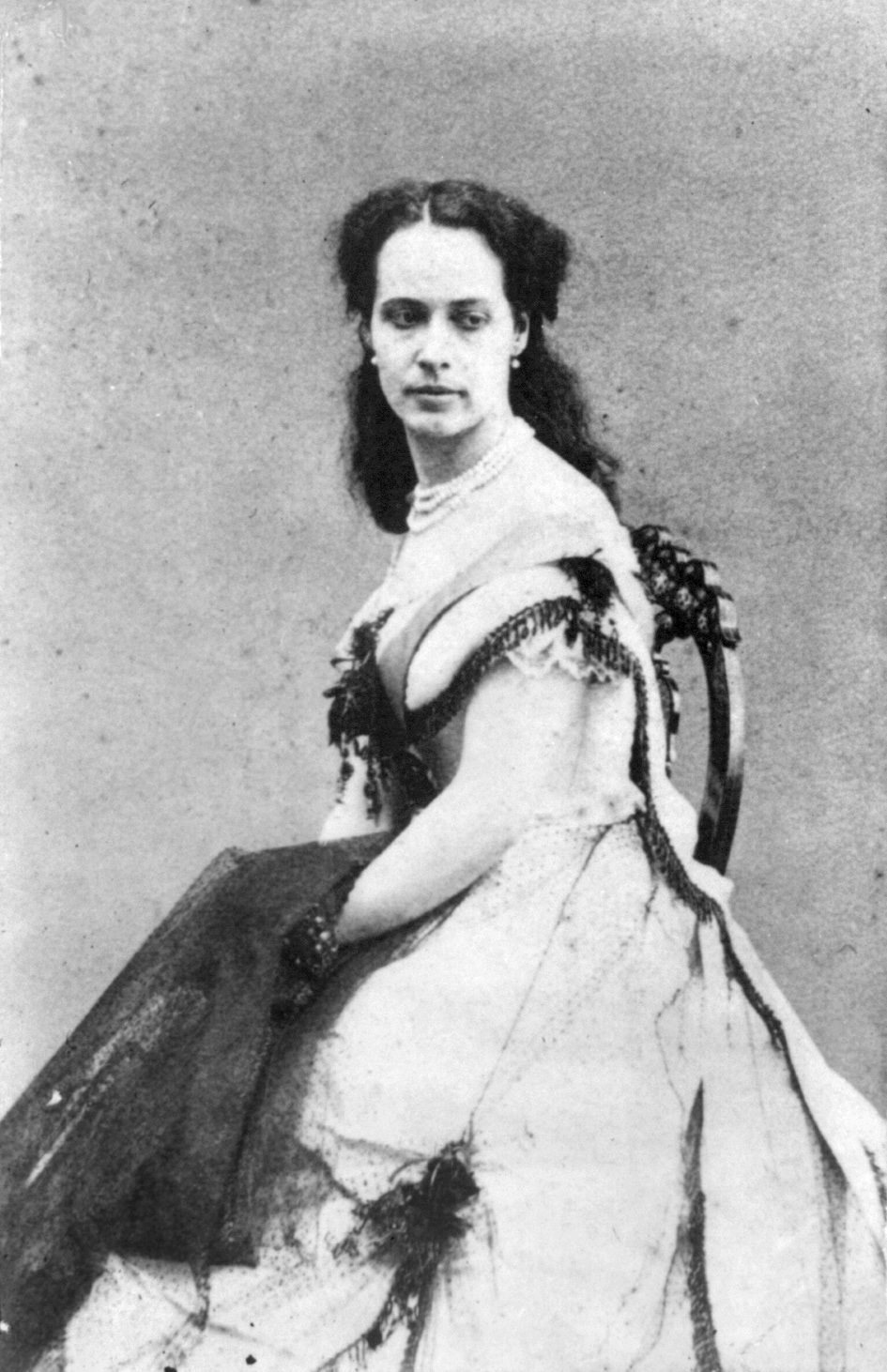 Agnes Elisabeth Winona Leclerq Joy aka Princess Salm-Salm